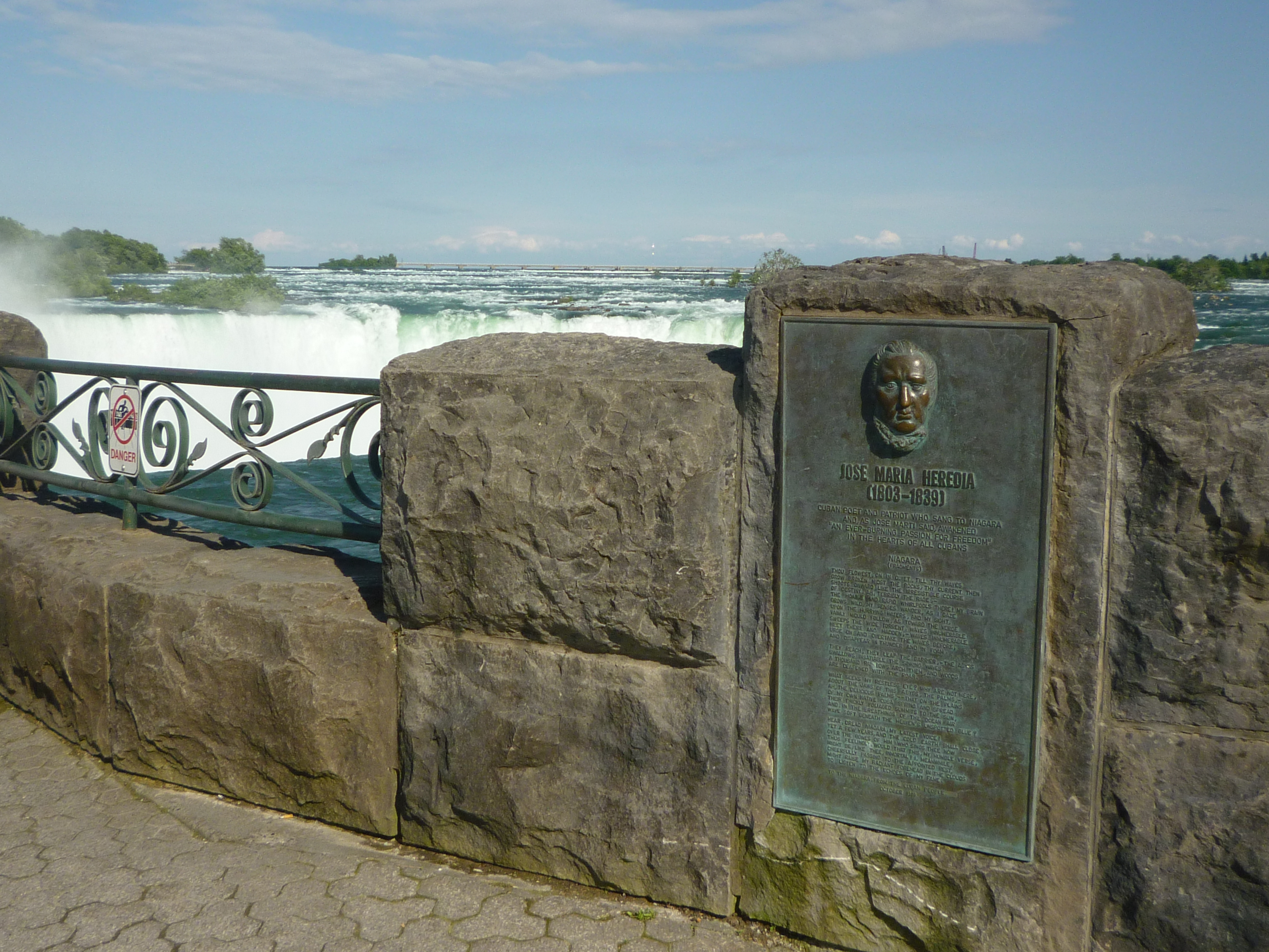 Plaque dedicated to Cuban poet Jose Maria Heredia and his poem about Niagara Falls, with a view of Niagara Falls. To Niagara from the People of Cuba, 1989.